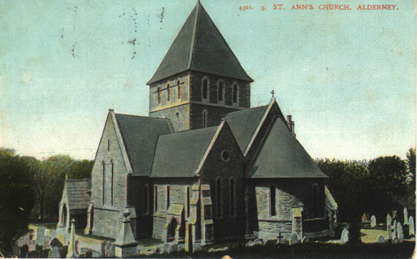 St.Ann's Church, Alderney. Postcard.